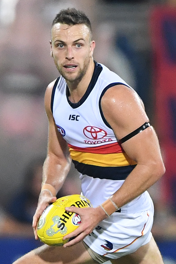 Brodie Smith of Adelaide during the 2019 AFL round 11 match between Melbourne and Adelaide at TIO Stadium on Saturday, 1 June 2019 in Darwin, Northern Territory.